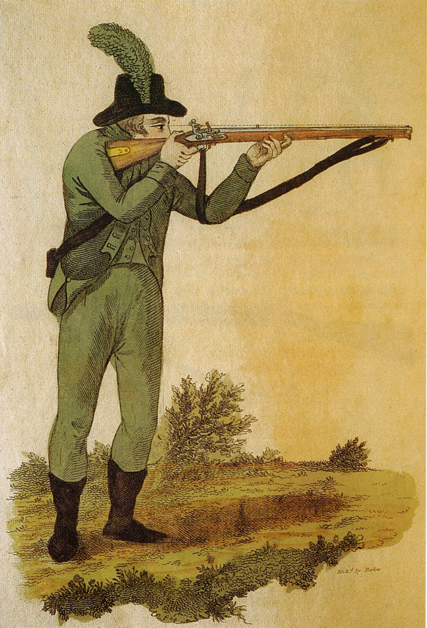 Green jacketed English rifleman firing Baker rifle. Plate from Ezekiel Baker's 22 Years Practice and Observations with Rifle Guns, published by him, 1st edition 1803. The 1804 edition has "23 years..."